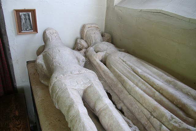 Sir Giles and Lady Alianore D'Aubigny. Alabaster effigies on the 14th century D'Aubigny tomb 794314 in St.Botolph's church